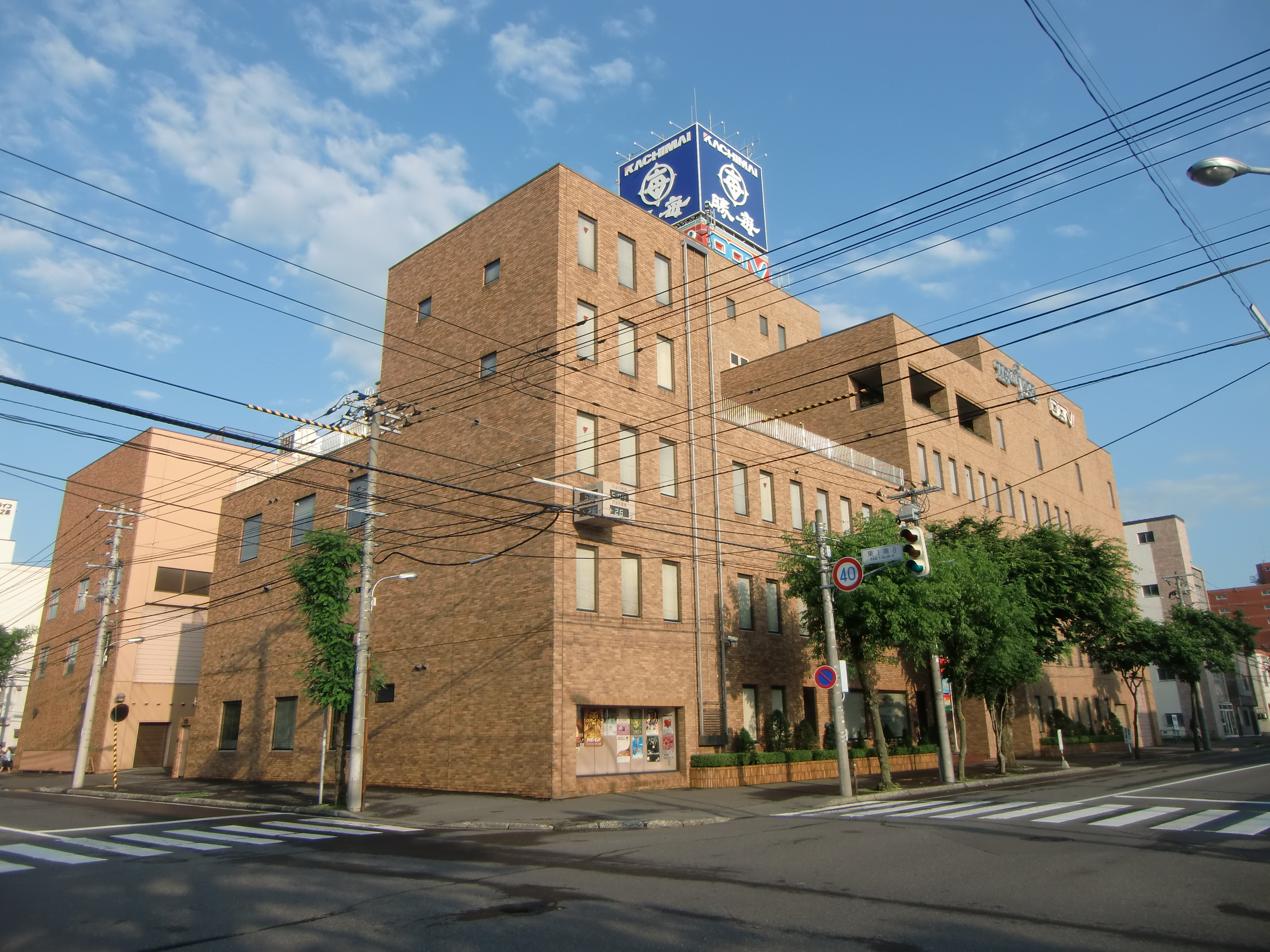 Kachimai Building ; Headquarter of Tokachi Mainichi Newspaper Inc, Obihiro City Cable(OCTV), FM Obihiro(FM-JAGA). This bldg is located in Obihiro city, Hokkaido, JAPAN.